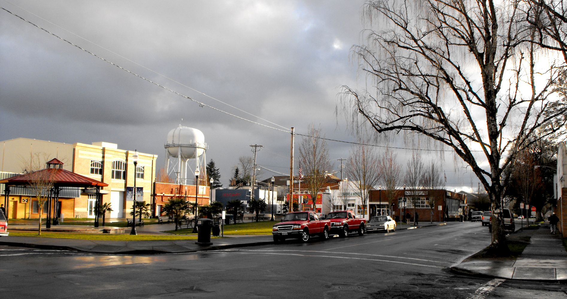 Woodburn, OR Central square